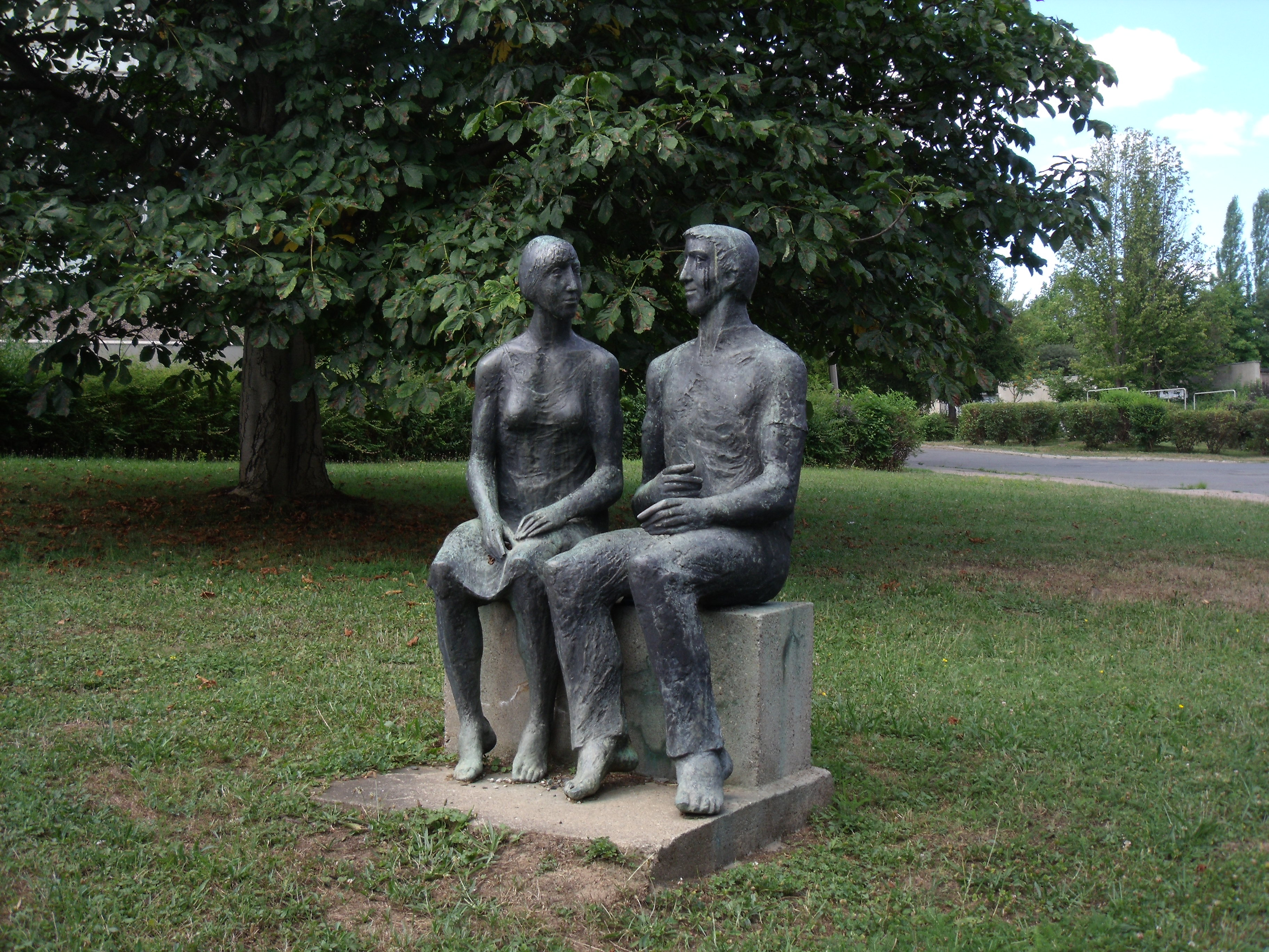 The district of Bieblach, Gera, Germany, in the year 2010: Sculpture Sitzendes Paar (Sitting couple) by Volkmar Kühn (1971) next to Am Bieblacher Hang elementary school